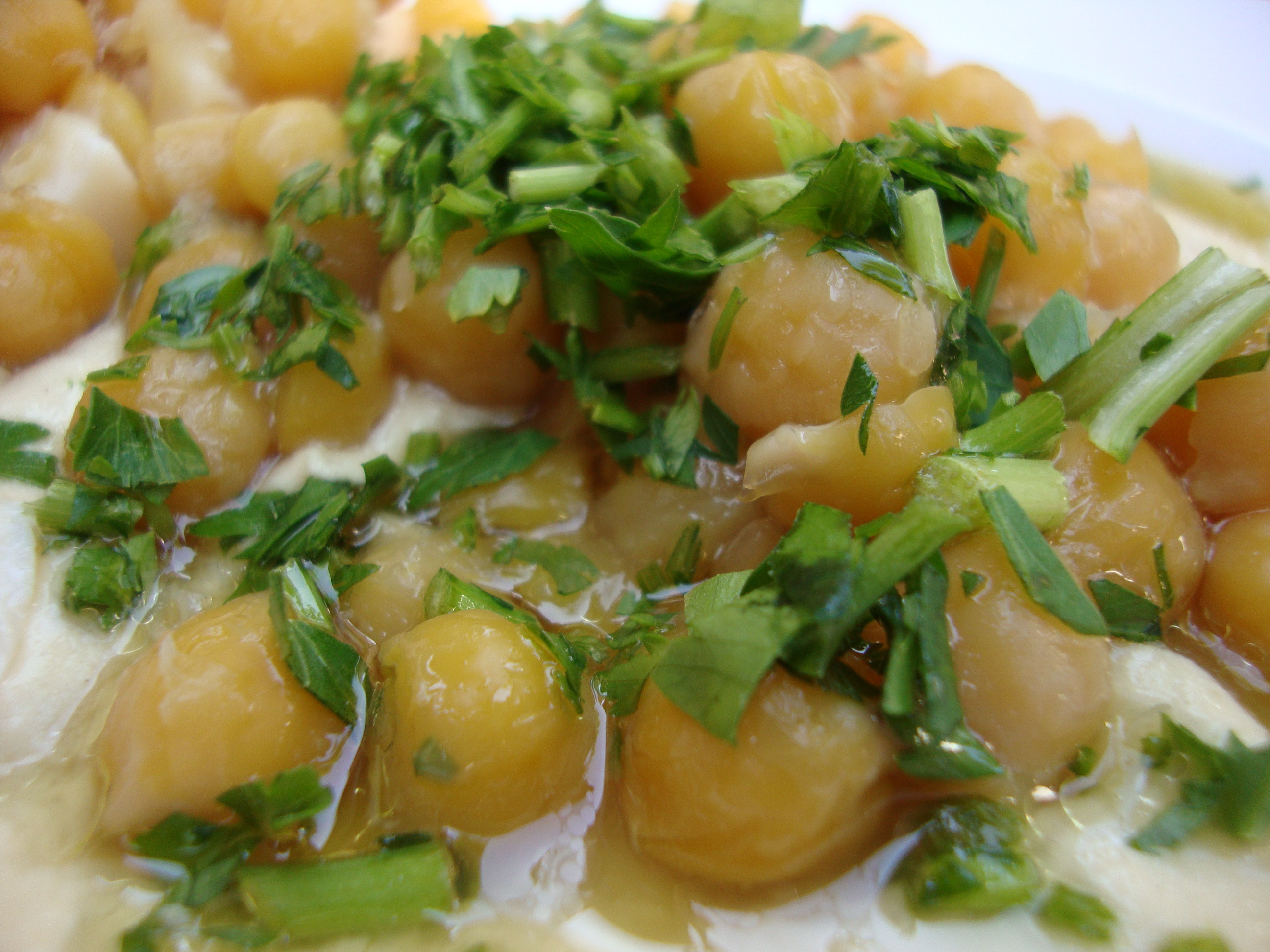 Hummus with chickpeas and parsley